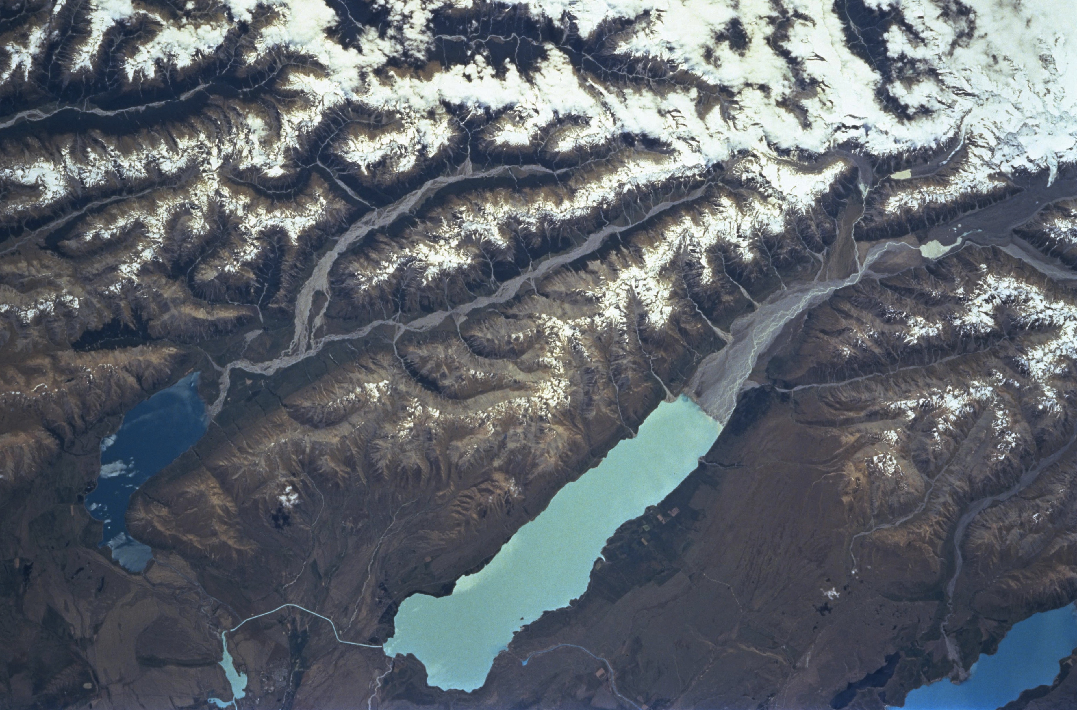 Astronaut's photo of Lake Pukaki and neighbouring lakes, with the Southern Alps above, on New Zealand's South Island. Northwest at top of image.